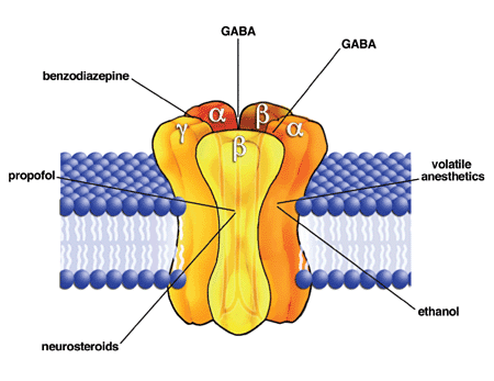 Schematic drawing of the γ-aminobutyric acid receptor (GABAA) ligandgated ion channel complex.